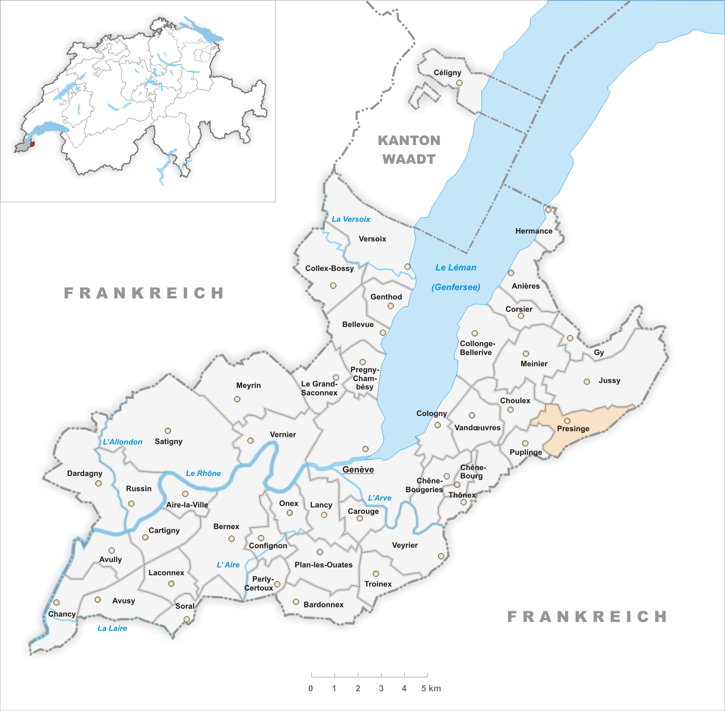 Municipality Presinge